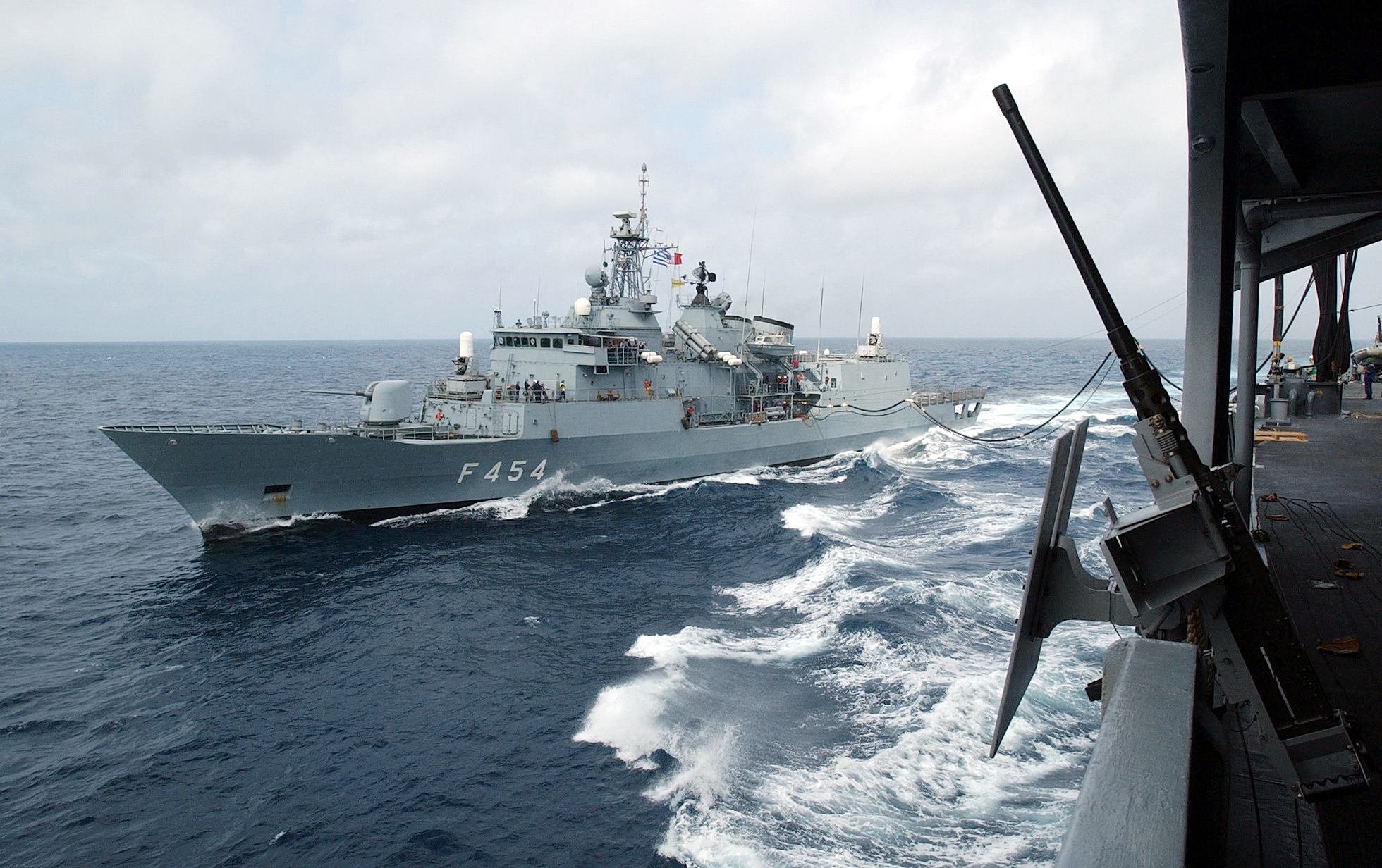 Enduring Freedom: 020510-N-6492H-503 At sea aboard USS Seattle (AOE 3) May 10, 2002 — The Greek frigate HS Psara, F-454, receives fuel during an underway replenishment with the fast combat support ship, USS Seattle, AOE-3. Seattle and Helicopter Combat Support Squadron Six (HC-6) Detachment Four supply the Kennedy battle group, and other coalition forces, operating in support of Operation Enduring Freedom.